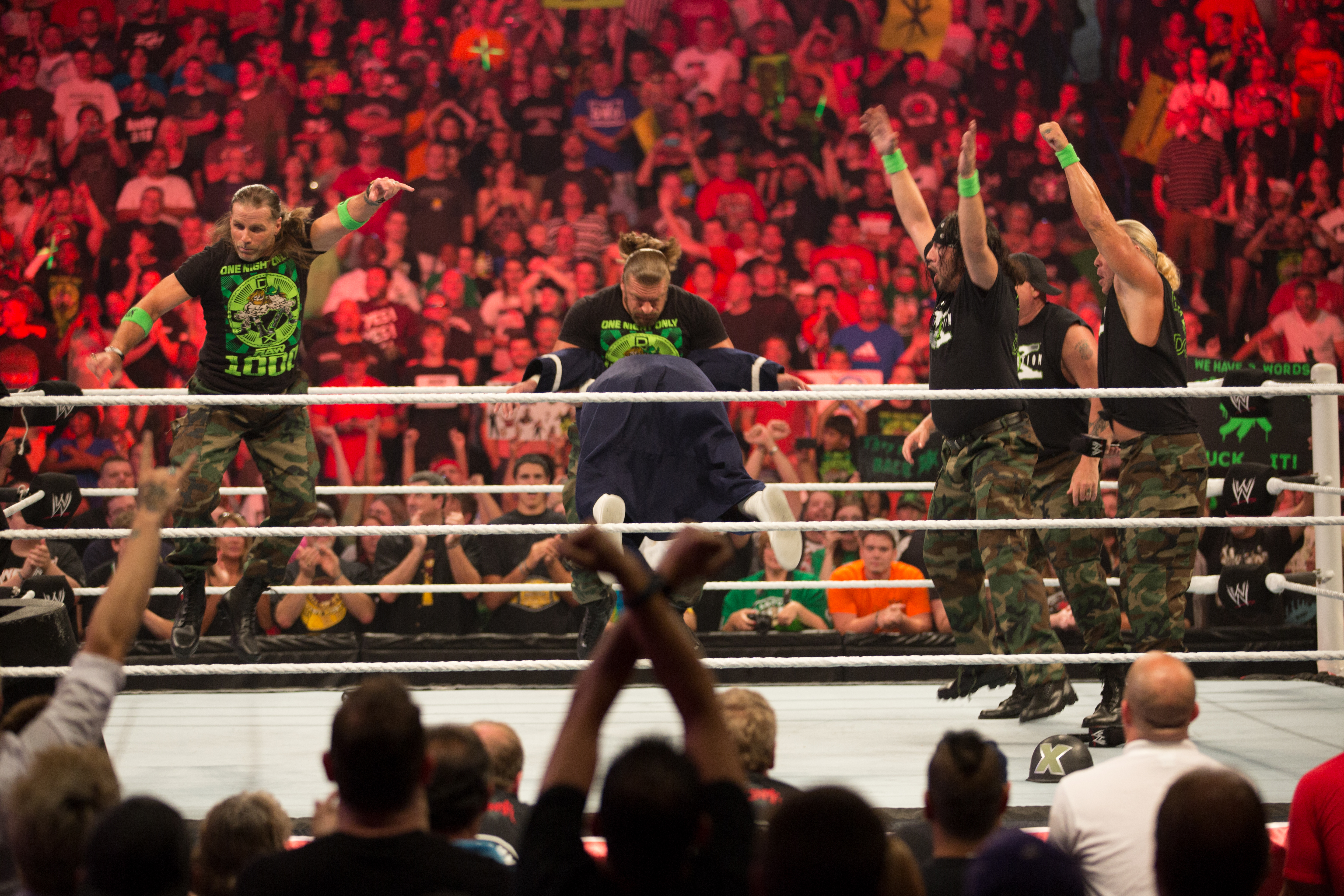 Damien Sandow receives a Pedigree, a kneeling double underhook facebuster, from Triple H as the rest of the members of D-Generation X (Shawn Michaels, X-Pac, Road Dogg and Billy Gunn) look on during Raw 1000.